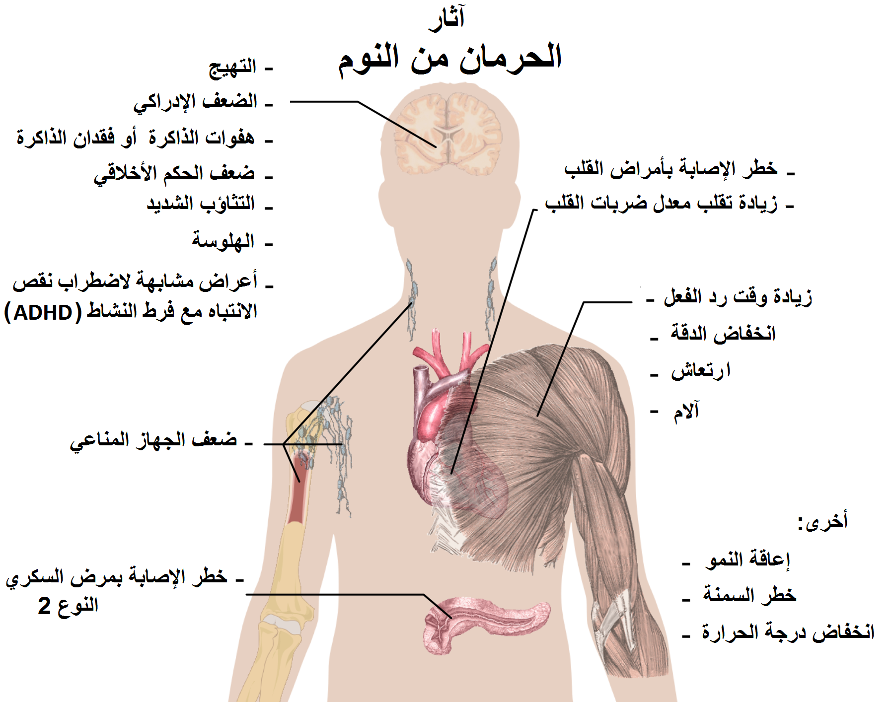 آثار الحرمان من النوم